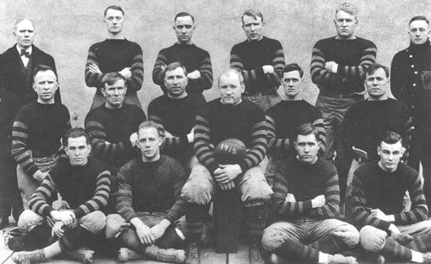 The Columbus Panhandles football team, posing in the 1910s.